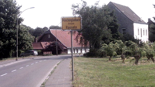 Rasseln western city limit, Mönchengladbach, Germany.